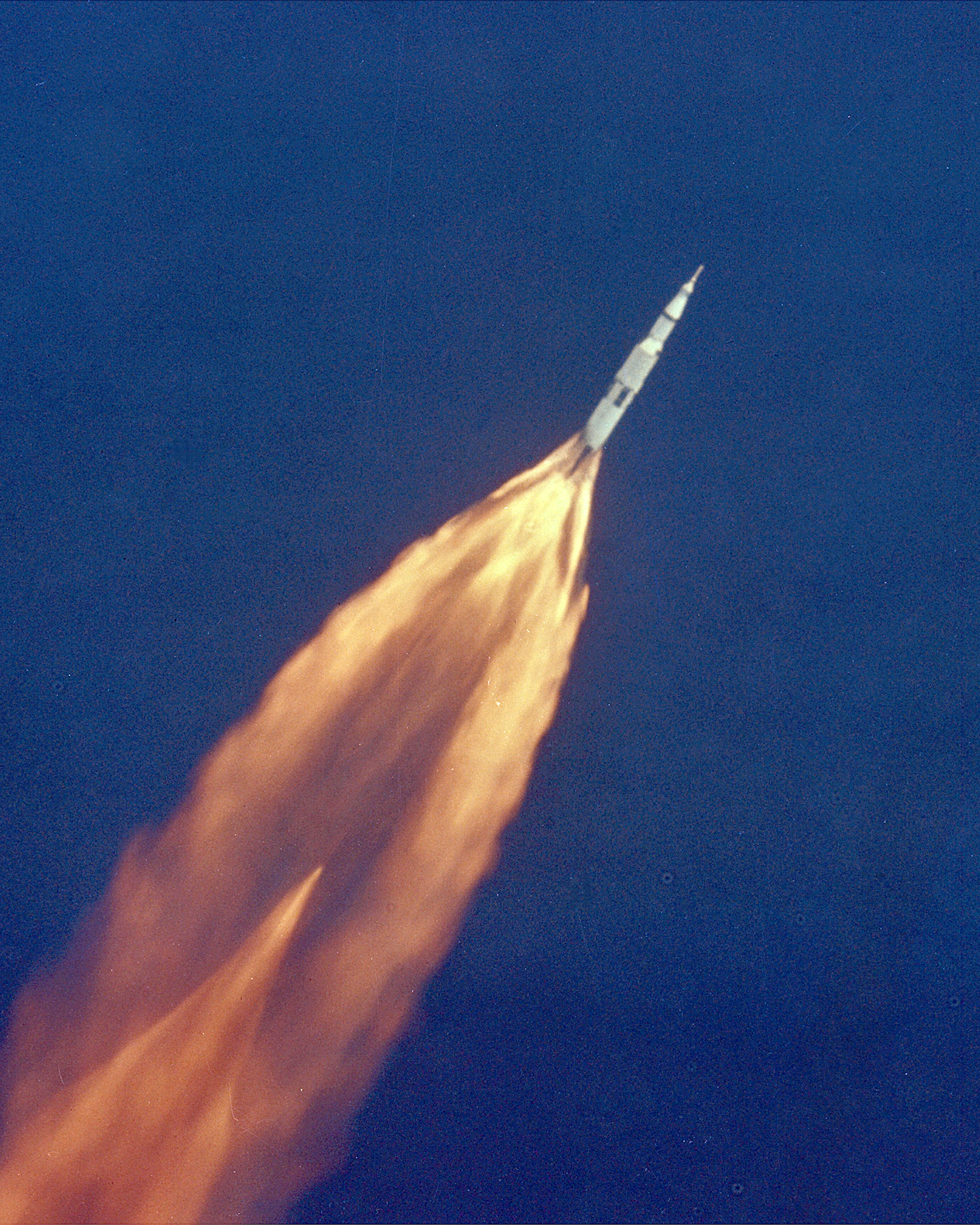 The Apollo 11 Saturn V space vehicle climbs toward orbit after liftoff from Pad 39A at 9:32 a.m. EDT. In 2 1/2 minutes of powered flight, the S-IC booster lifts the vehicle to an altitude of about 39 miles some 55 miles downrange. This photo was taken with a 70mm telescopic camera mounted in an Air Force EC-135N plane. Onboard are astronauts Neil A. Armstrong, Michael Collins and Edwin E. Aldrin, Jr.